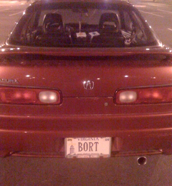 Vehicle with a license plate reading "BORT", a reference to The Simpsons